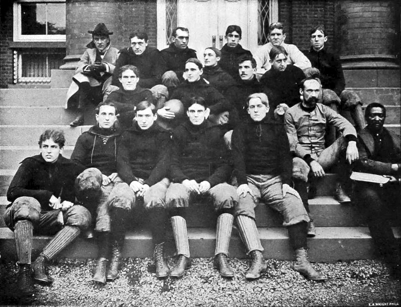 1897 Rutgers Scarlet Knights football team